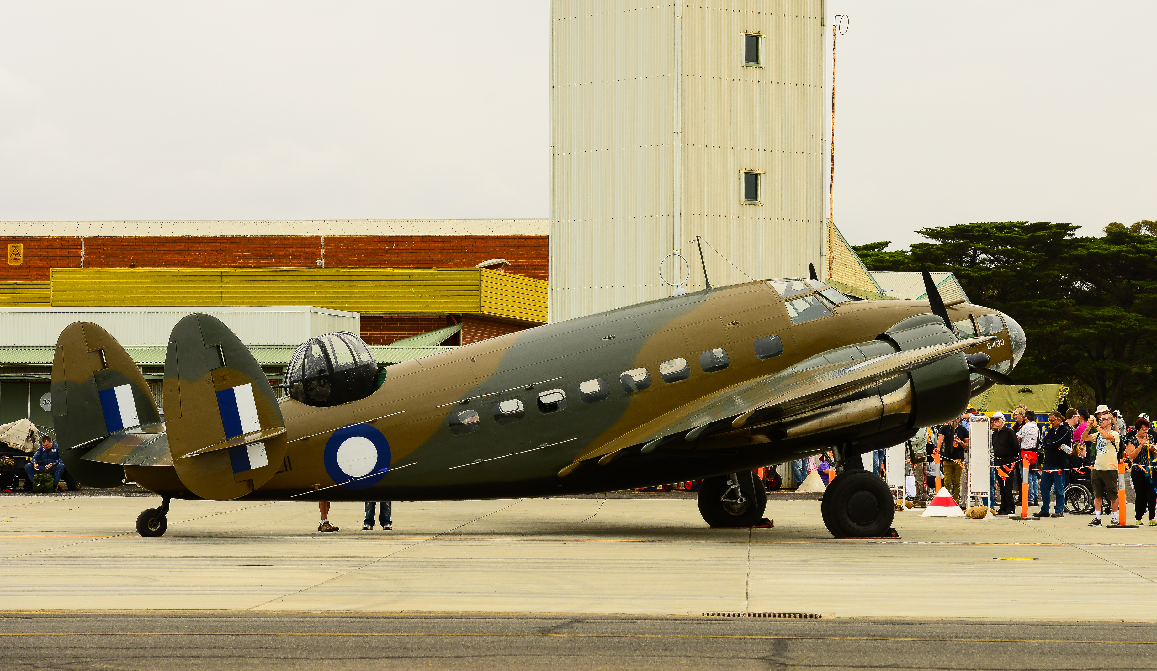 Centenary of Military Aviation 2014 Air Show (RAAF Williams, Point Cook)